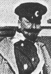 Nirol, Fyodor Maksimilianovich